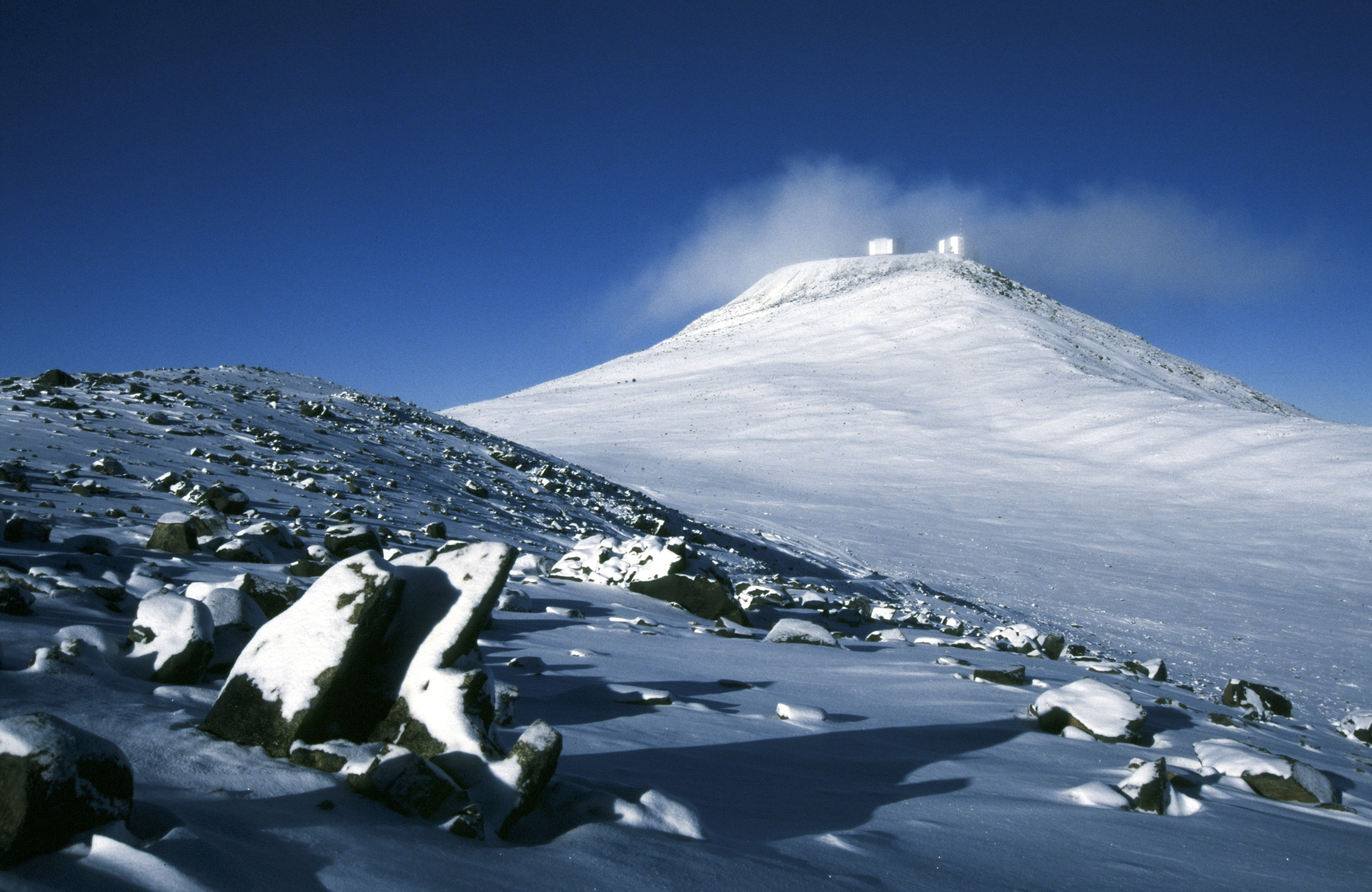 The humidity at Paranal is generally below five percent and the overall precipitation is only 100 mm per year — a rather dry place indeed. It does, on very rare occasions, snow on this 2600-metre-high peak as illustrated by this beautiful image. The snow-covered terrain gleams under a bright blue sky as the snow storm passes.